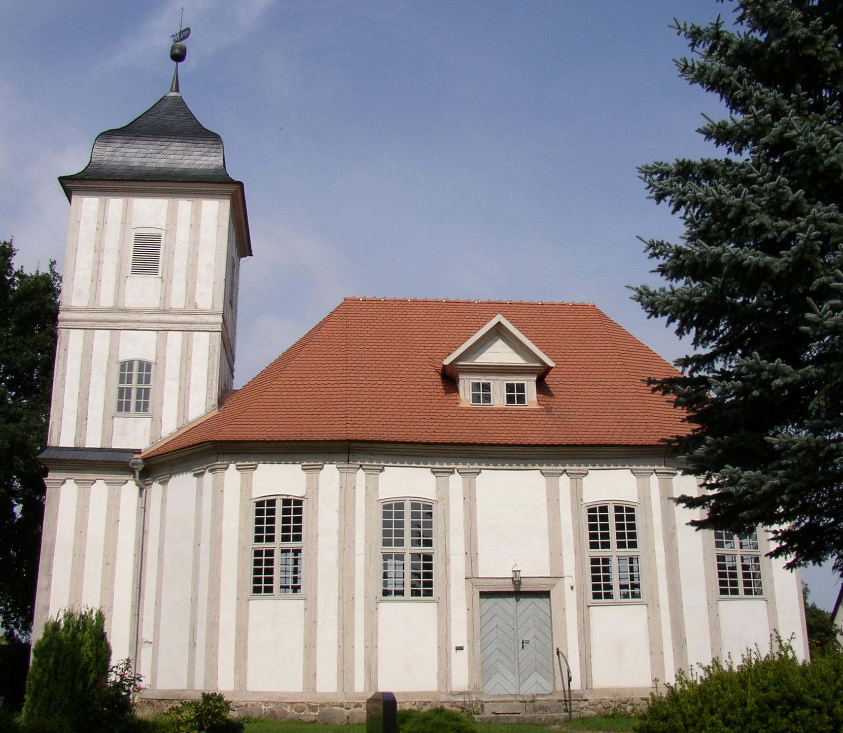 Church in Neustadt-Plänitz in Brandenburg, Germany